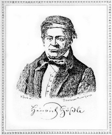 Heinrich Hössli (1784-1864) - drawing by Caspar Mueller.